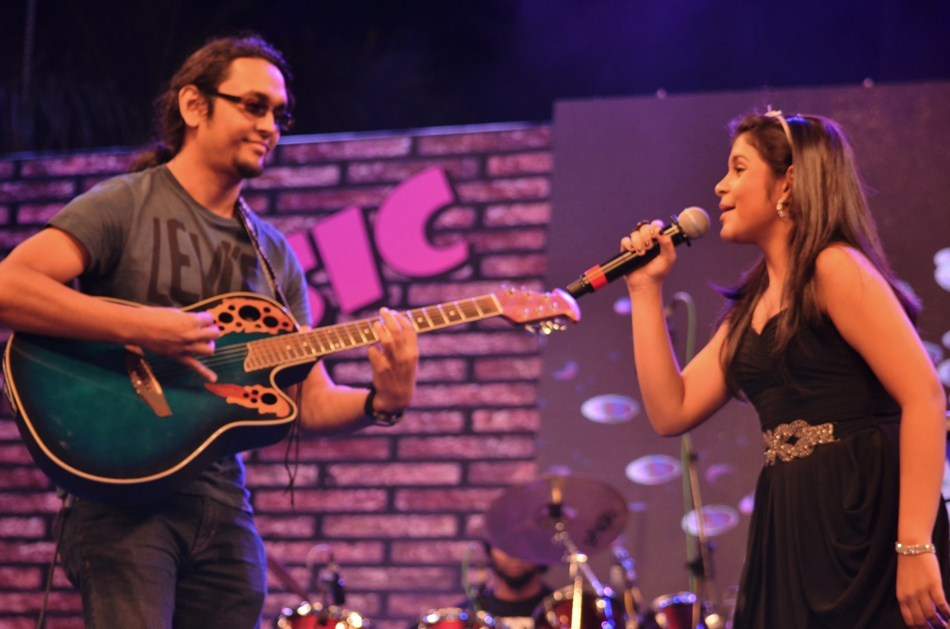 Assamese musician duo Jim Ankan Deka and Antara Nandy in Bangalore at an event 'Alive India in Concert' organized by Aurko at Phoenix City Market, bangalore, India on the occasion of Diwali and Children's Day of India.